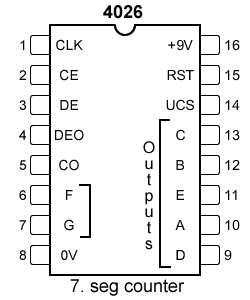 Author: Philip Withnall ([Mr]DrBob) Website: [1]